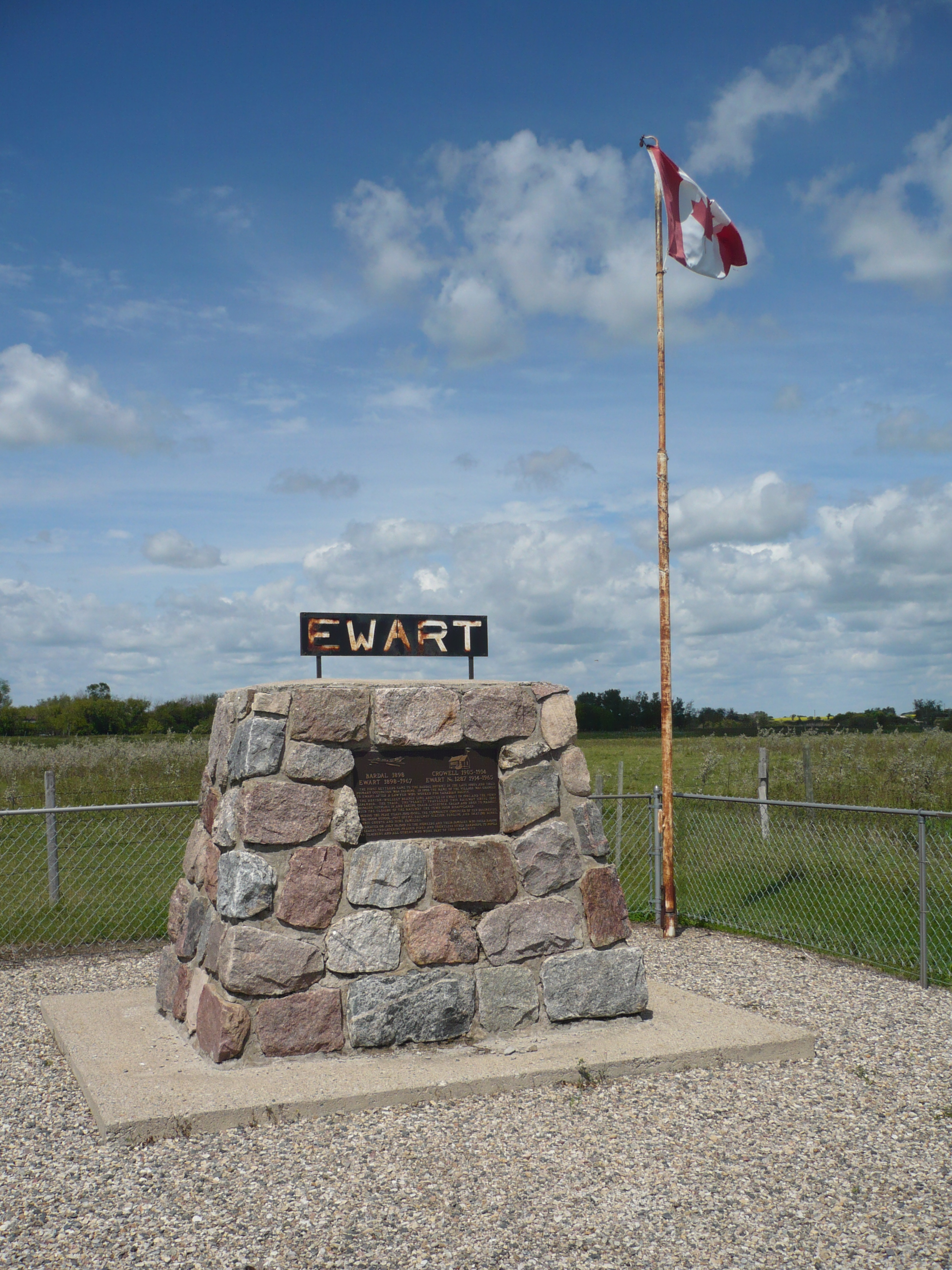 Cairn commemorating the community of Ewart, Manitoba in the Rural Municipality of Pipestone.